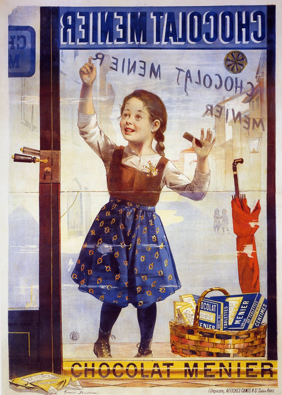 Advertising poster Chocolat Menier.